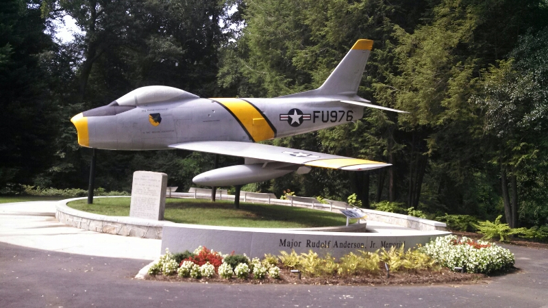 F-86 Sabre fighter plane in Greenville, SC.